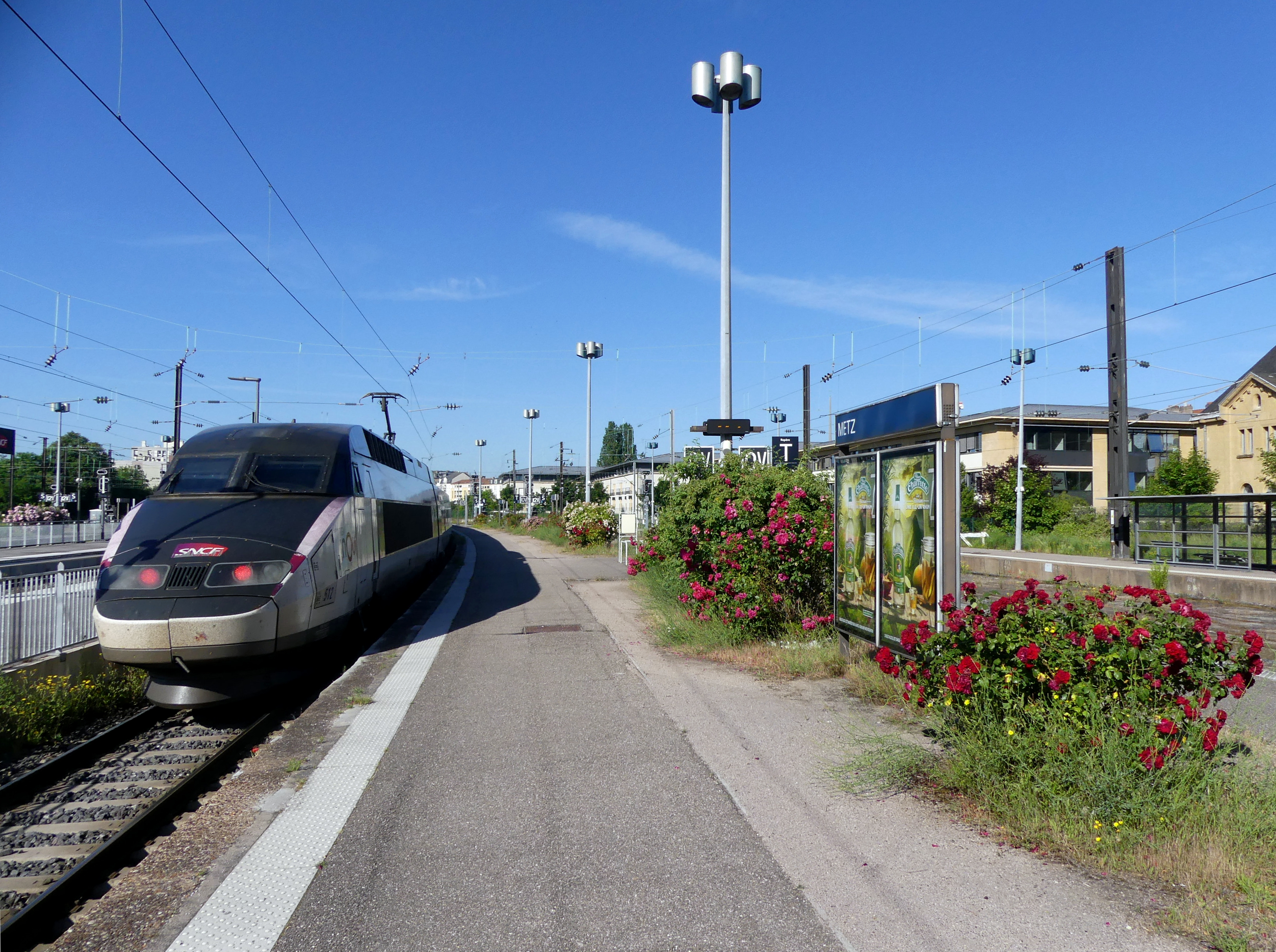 Sight of the French SNCF TGV on morning journey n° 2602 to Paris leaving its initial station Metz-Ville, in Moselle, France.